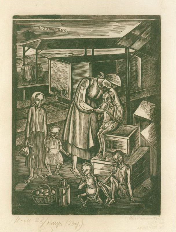 Hunger